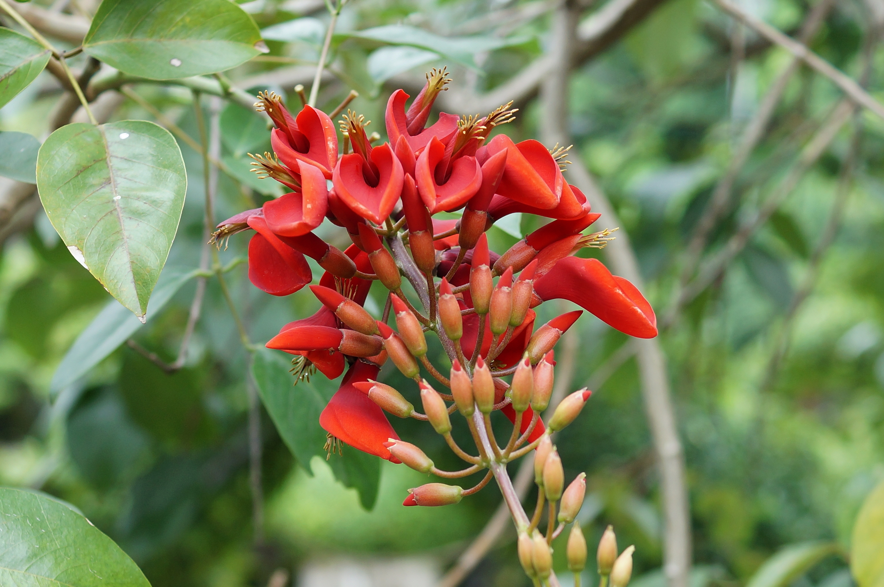 Cockspur Coral Tree